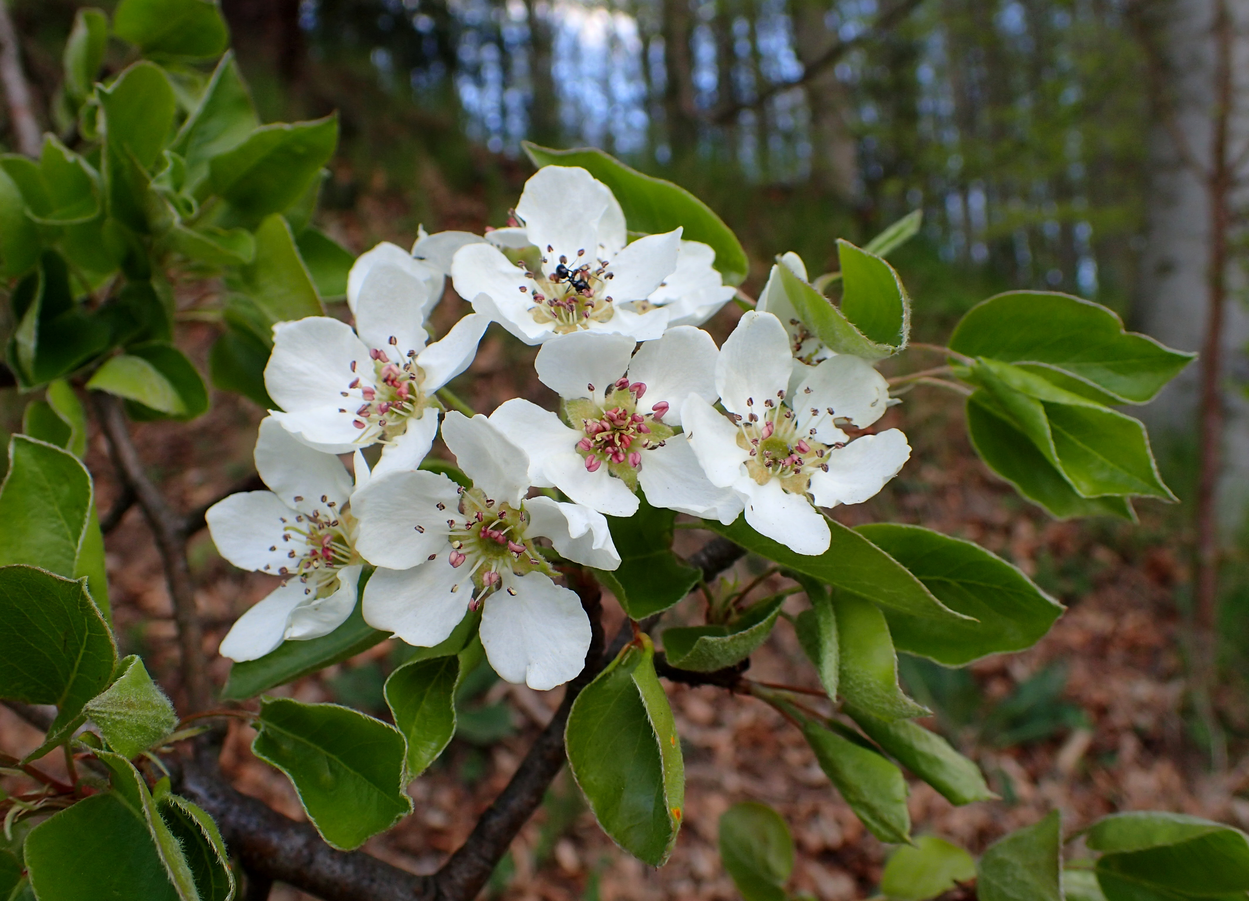 Pyrus pyraster in botanical garden in Bydgoszcz